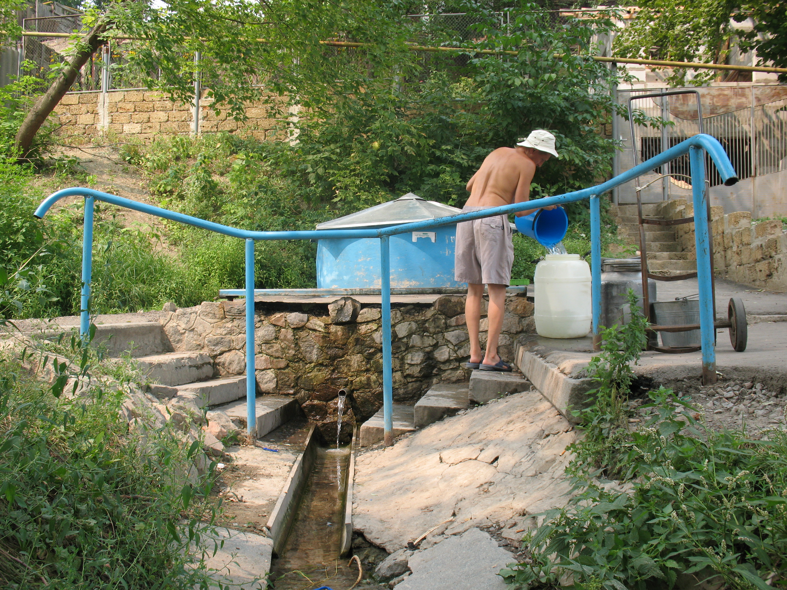 Kharkov City. 2010 Northern Hemisphere summer heat.